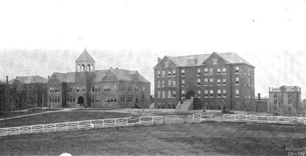 Knoxville College in Knoxville, Tennessee, USA, photographed circa 1903. McKee Hall is on the left, and Elnathan Hall is on the right.